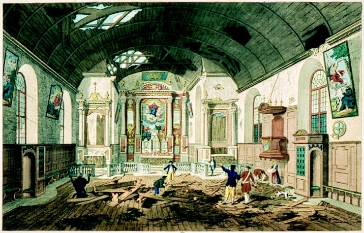 A View of theInside of the Recollets Friars Church, drawn on the Spot by Richard Short. Part of "Twelve views of the principal buildings in Quebec, from drawings, taken on the spot, at the command of Vice-Admiral [Charles Saunders] by Richard Short, purser of his majesty’s ship the Prince of Orange."